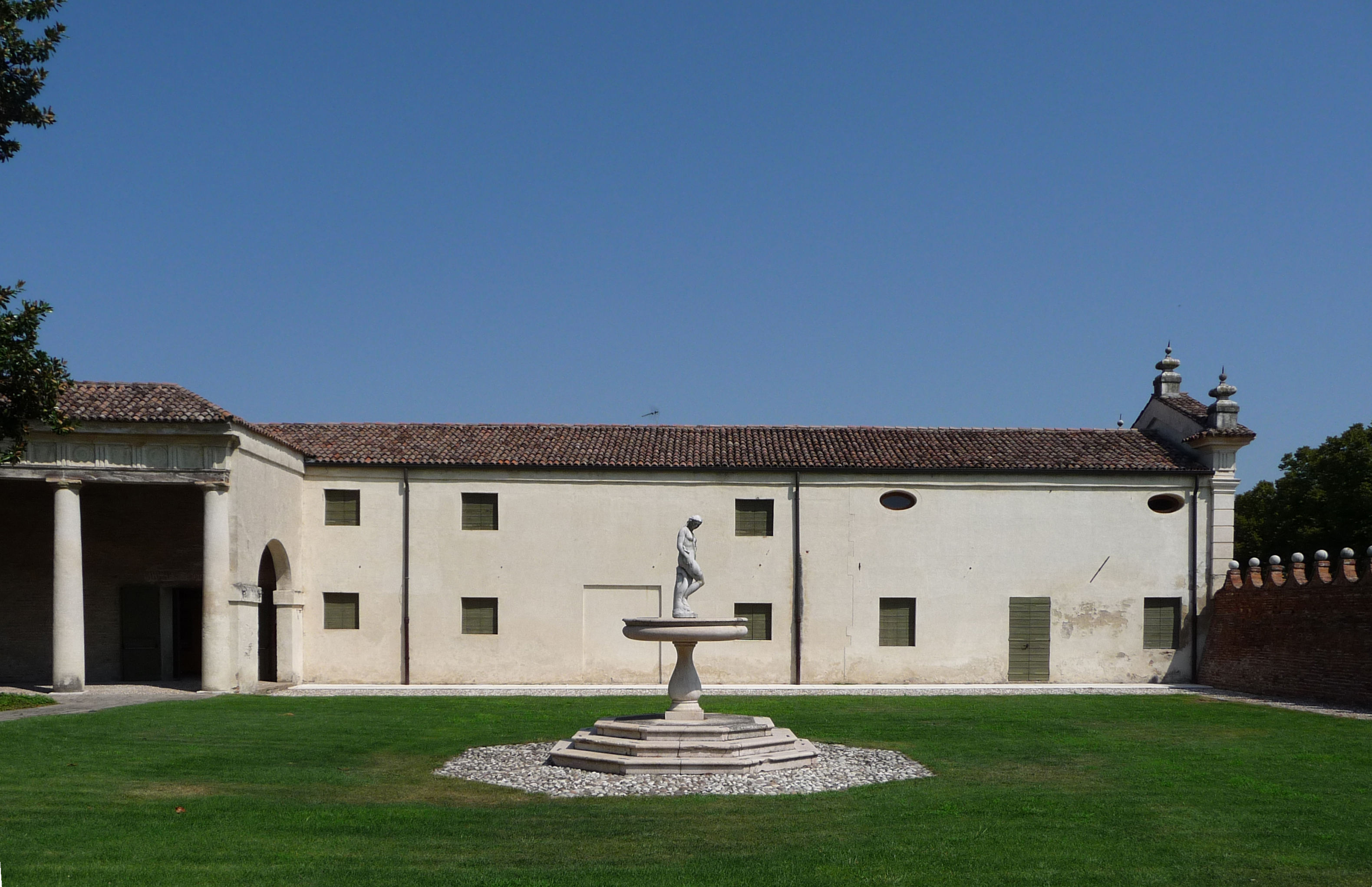 North wing (barchessa) of Villa Badoer in Fratta Polesine, province of Rovigo, Italy, designed by Andrea Palladio in 1554 and built 1556-1563.